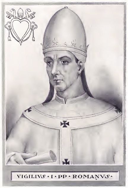 This illustration is from The Lives and Times of the Popes by Chevalier Artaud de Montor, New York: The Catholic Publication Society of America, 1911. It was originally published in 1842.